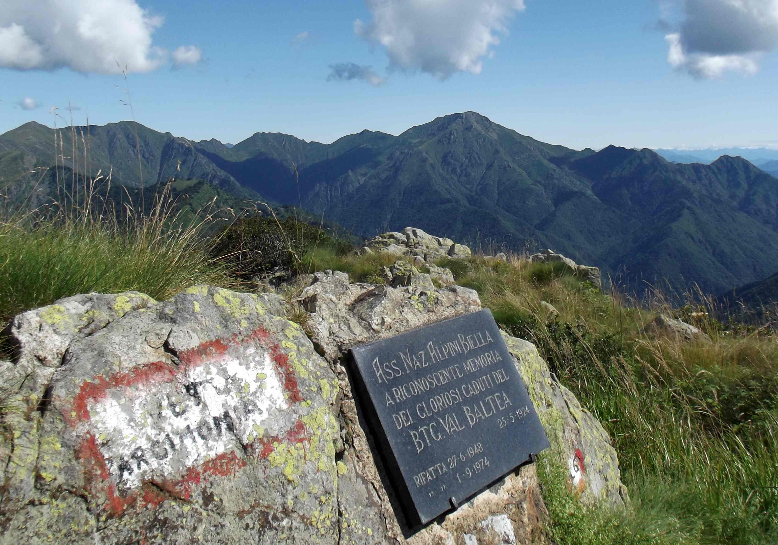 Rocca d'Argimonia (BI, Italy): memorial tablet on the summit, in the background the Monte Barone